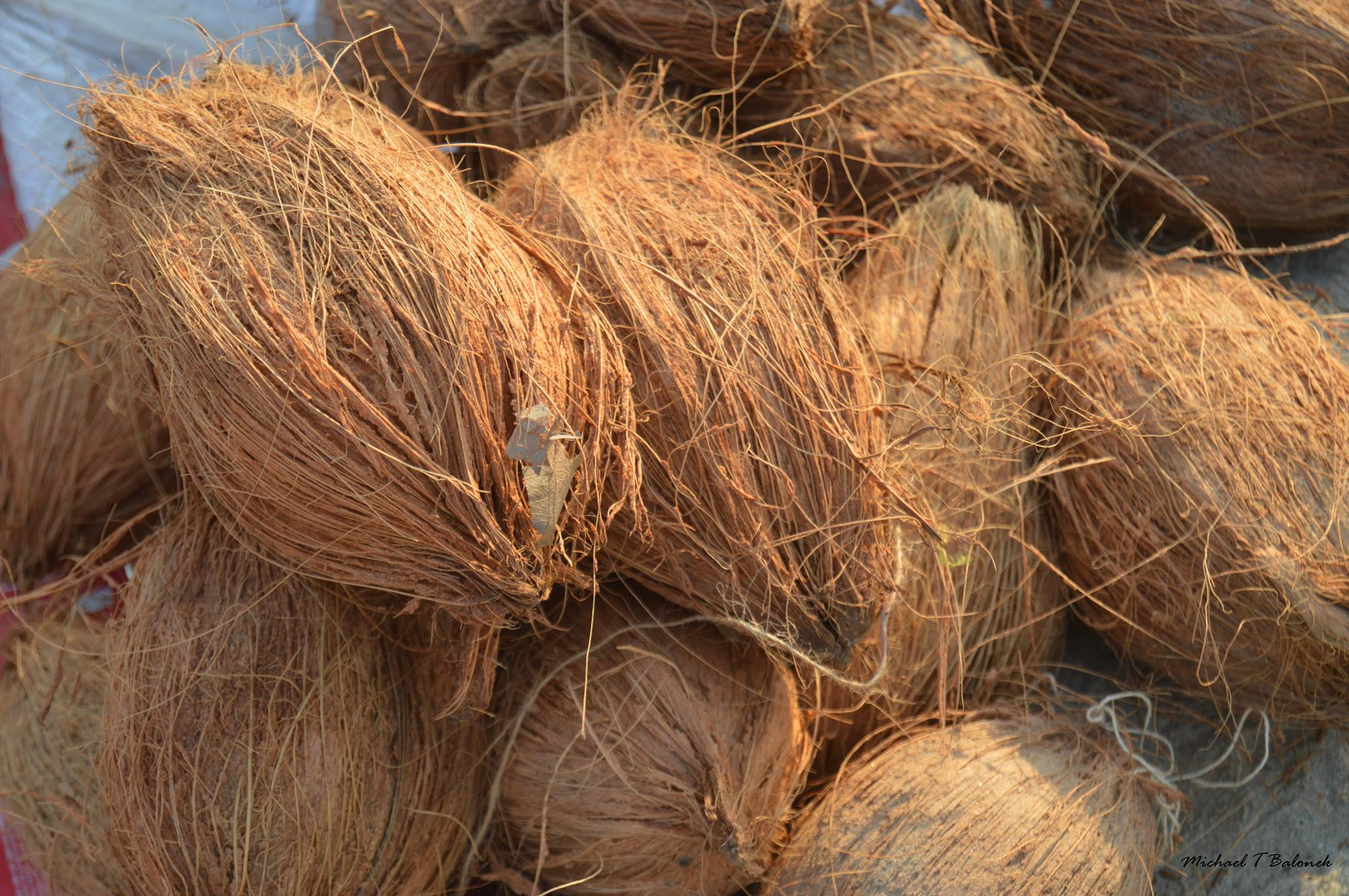 Thrown into the river as a form of worship (and then fished out by young boys and sold again), coconuts were prominently seen at the Kumbh Mela This photo has been taken in the country: India